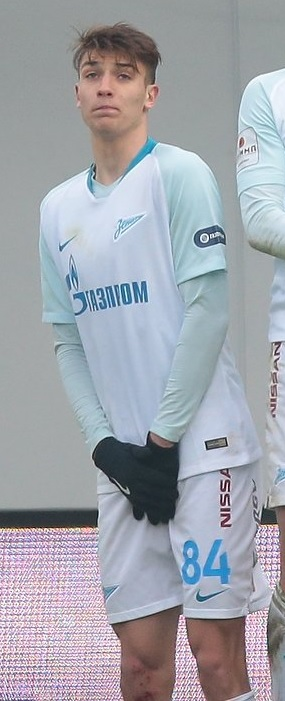 Ilya Vorobyov with FC Zenit-2 Saint Petersburg in a game against FC Khimki.